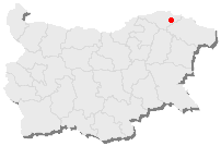 Map of Bulgaria, the red point is the position of Alfatar.